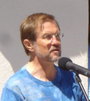 Cropped version of